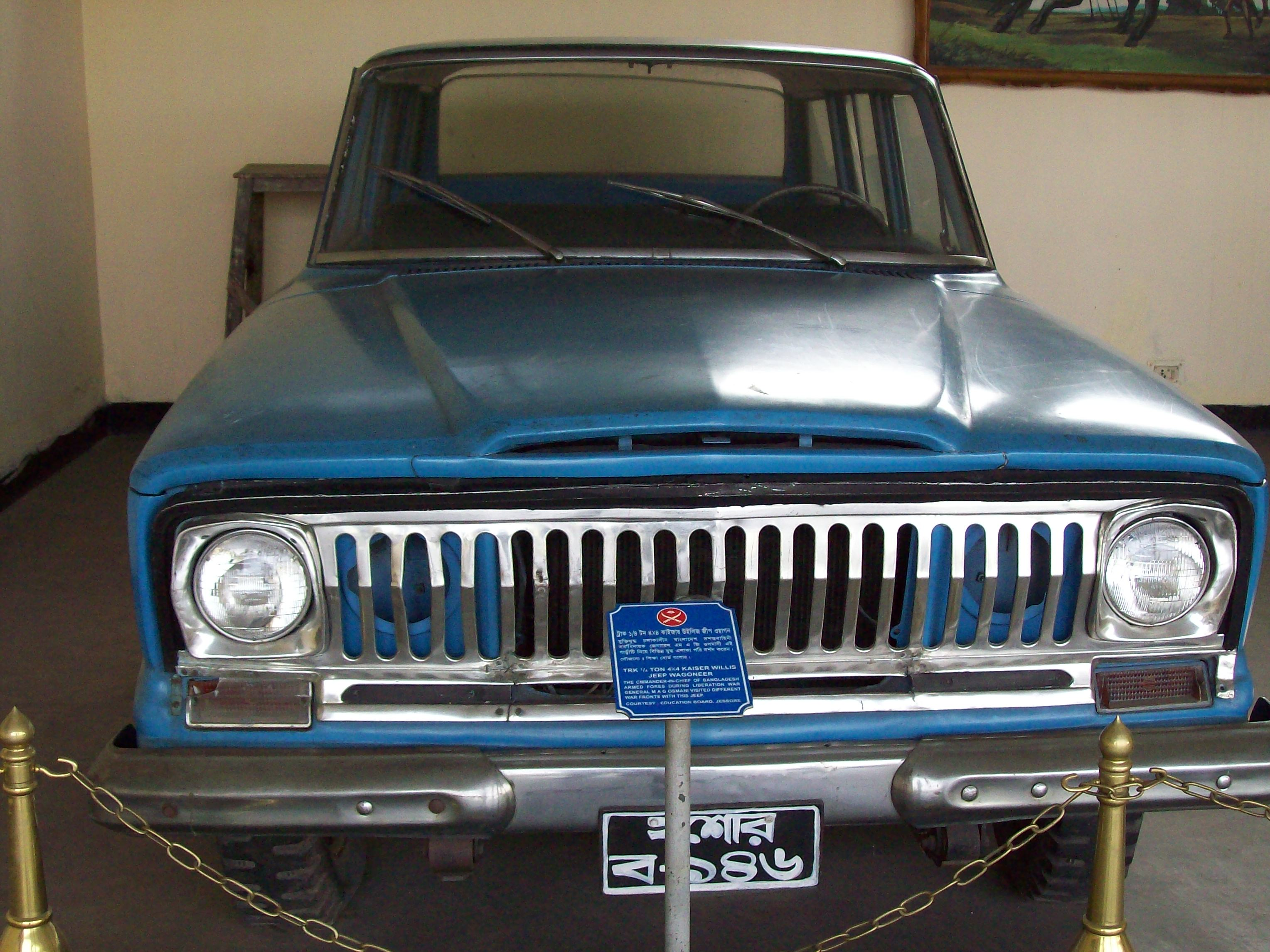 MAG Osmani Jeep Source: Photo taken by Sabih at the Military Museum, Dhaka.